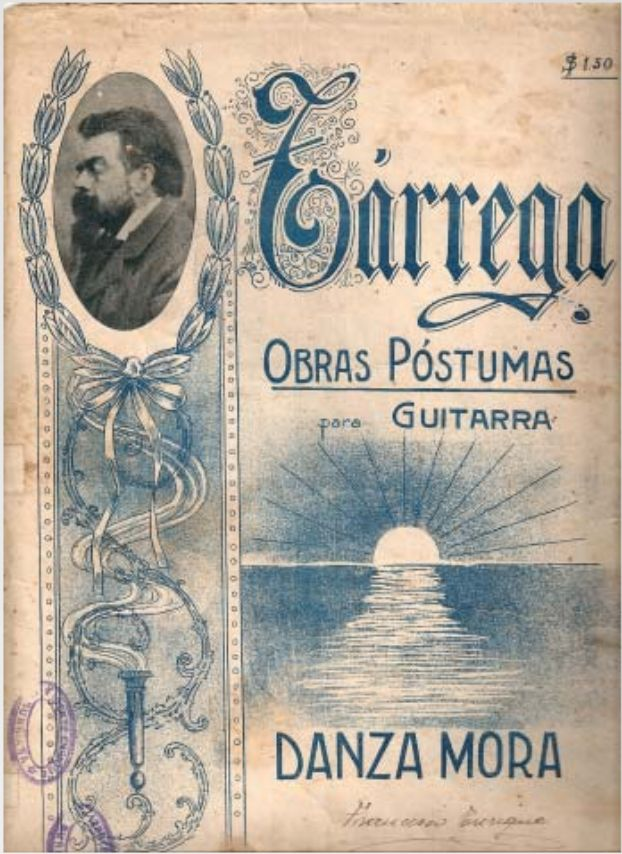 Original Covers of Tarrega's sheetmusic by editor Ildefonso Alier